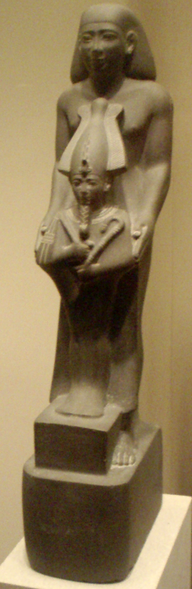 The god Halbes holding an Osirus figure with the name of the pharaoh Psamtek II inscribed on his shoulder. From Karnak, circa 595-589 B.C.